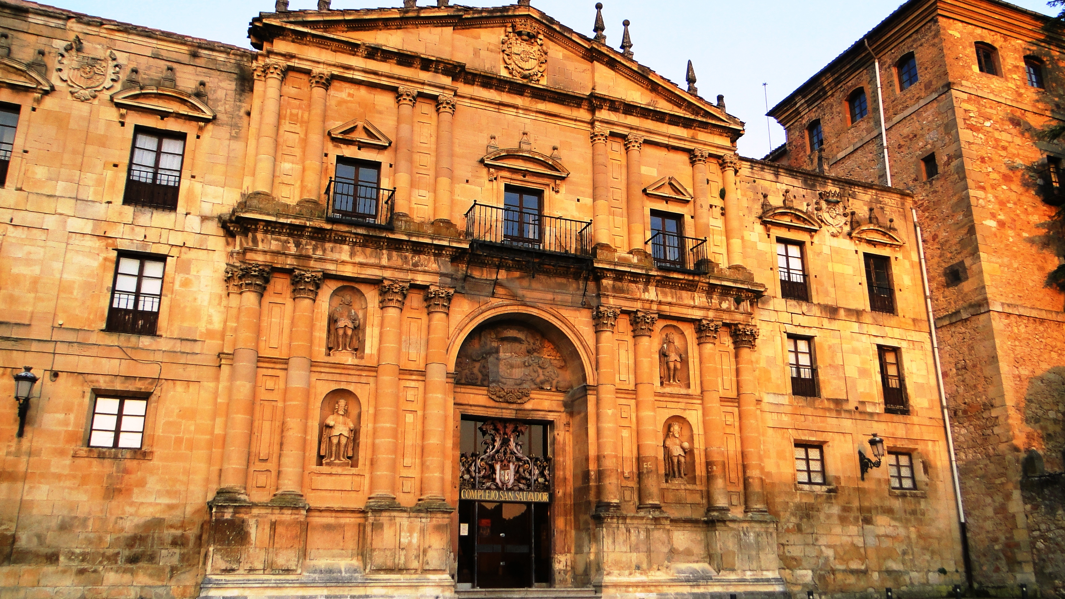 Monasterio de San Salvador de Oña (Burgos)